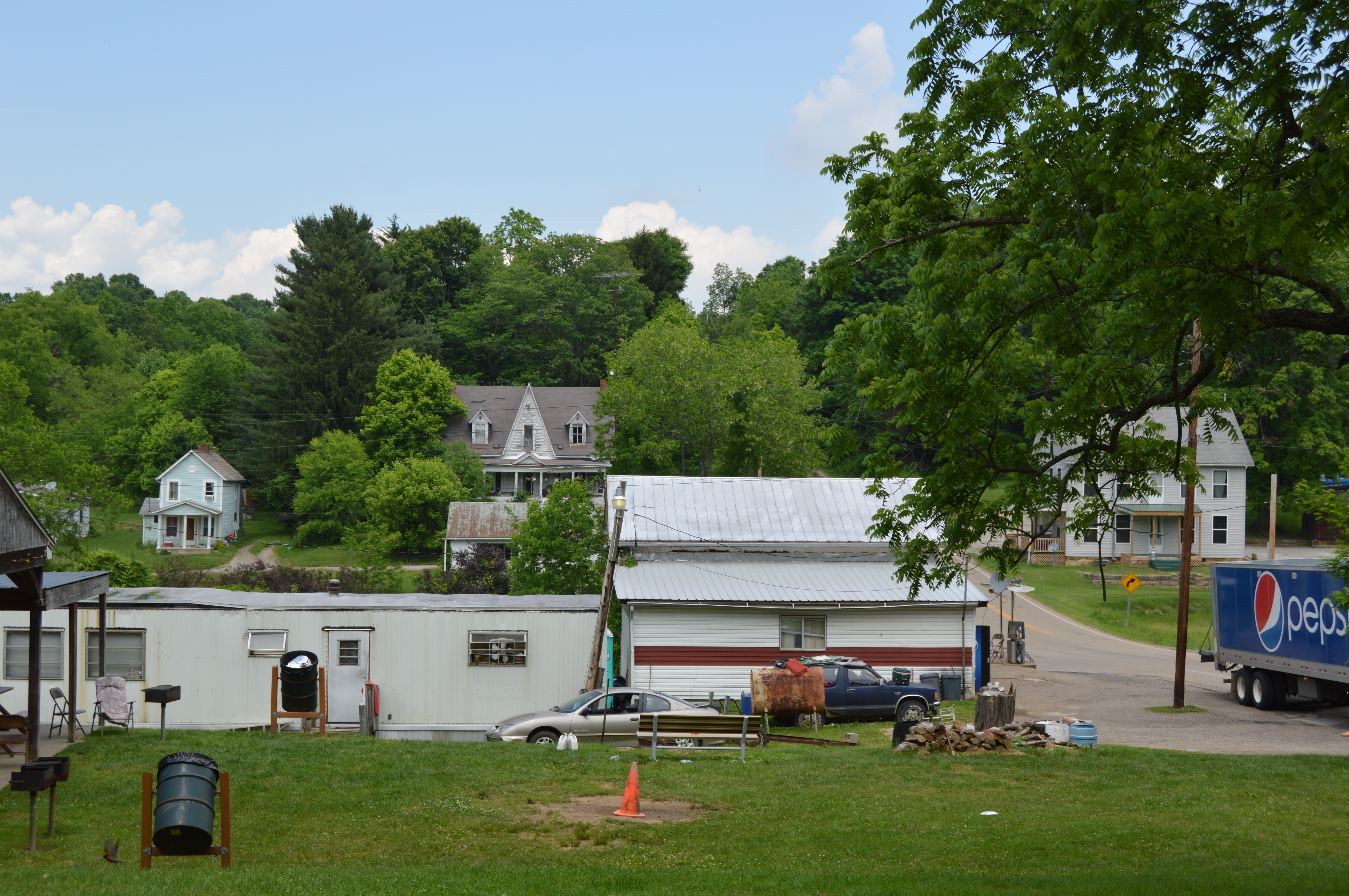 Houses and the general store in Cutler, Ohio, United States, looking north from State Route 555 just west of Bank Street.